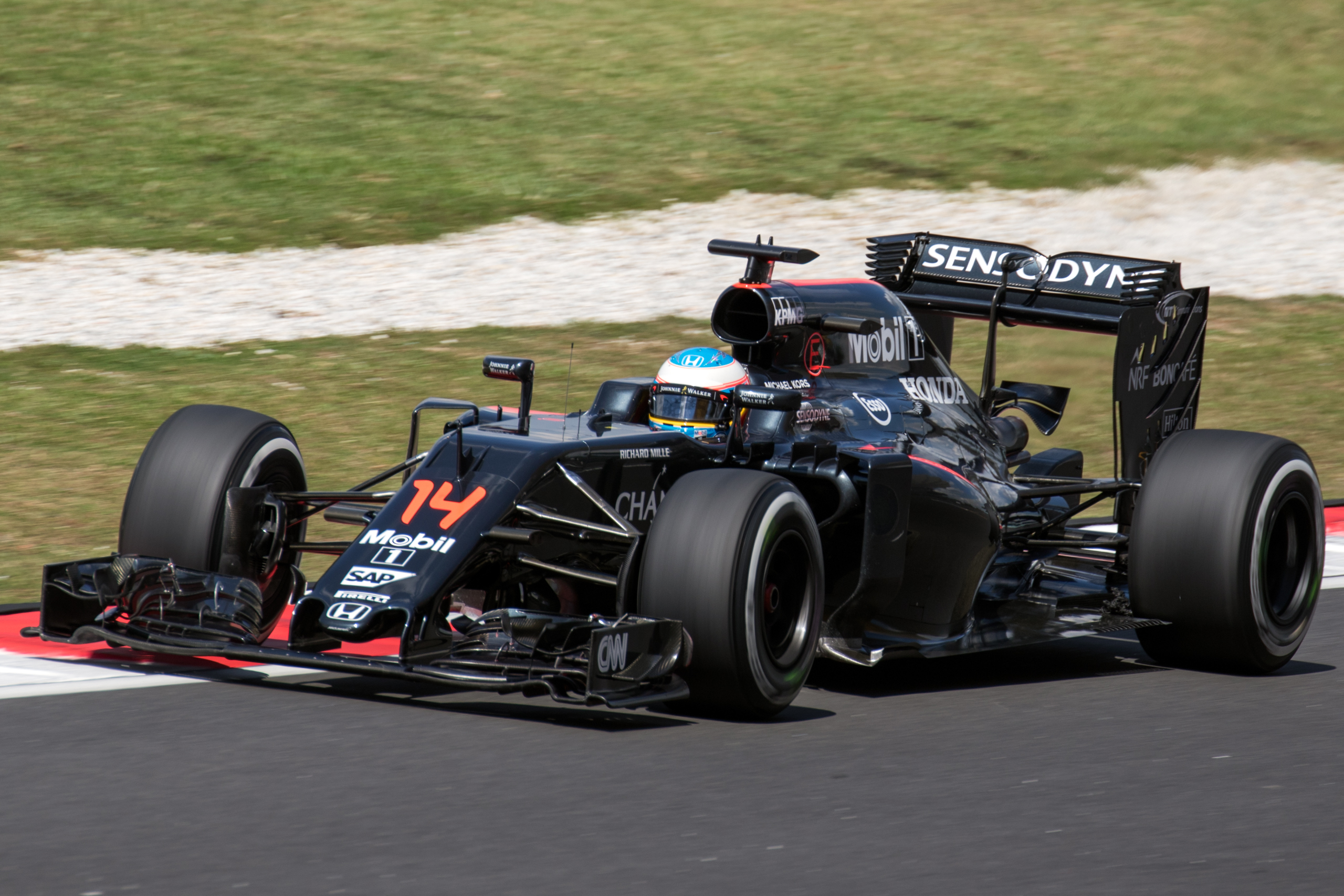 Formula One 2016 Rd.16 Malaysian GP: Fernando Alonso (McLaren)